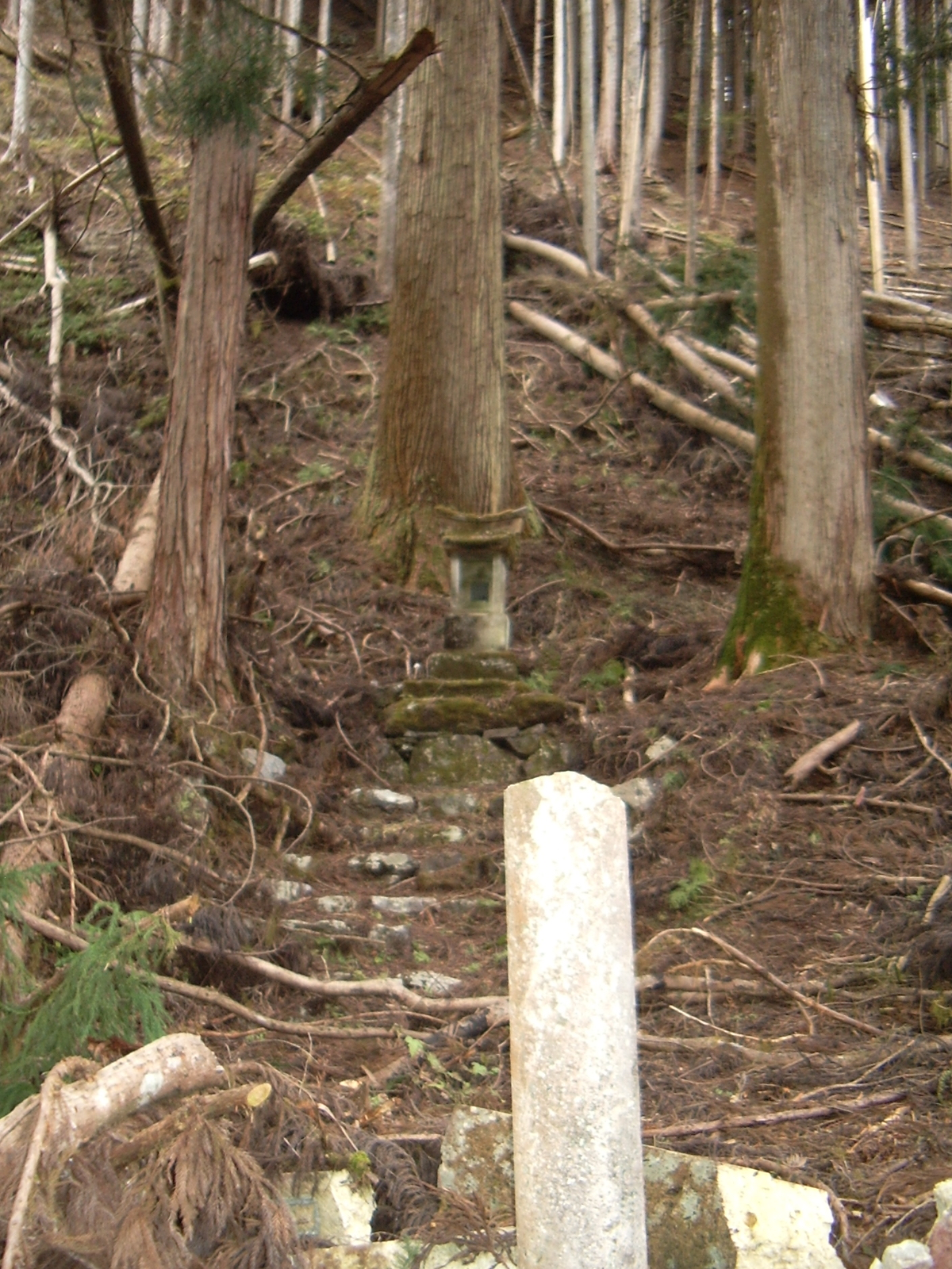 Small Shrine 01